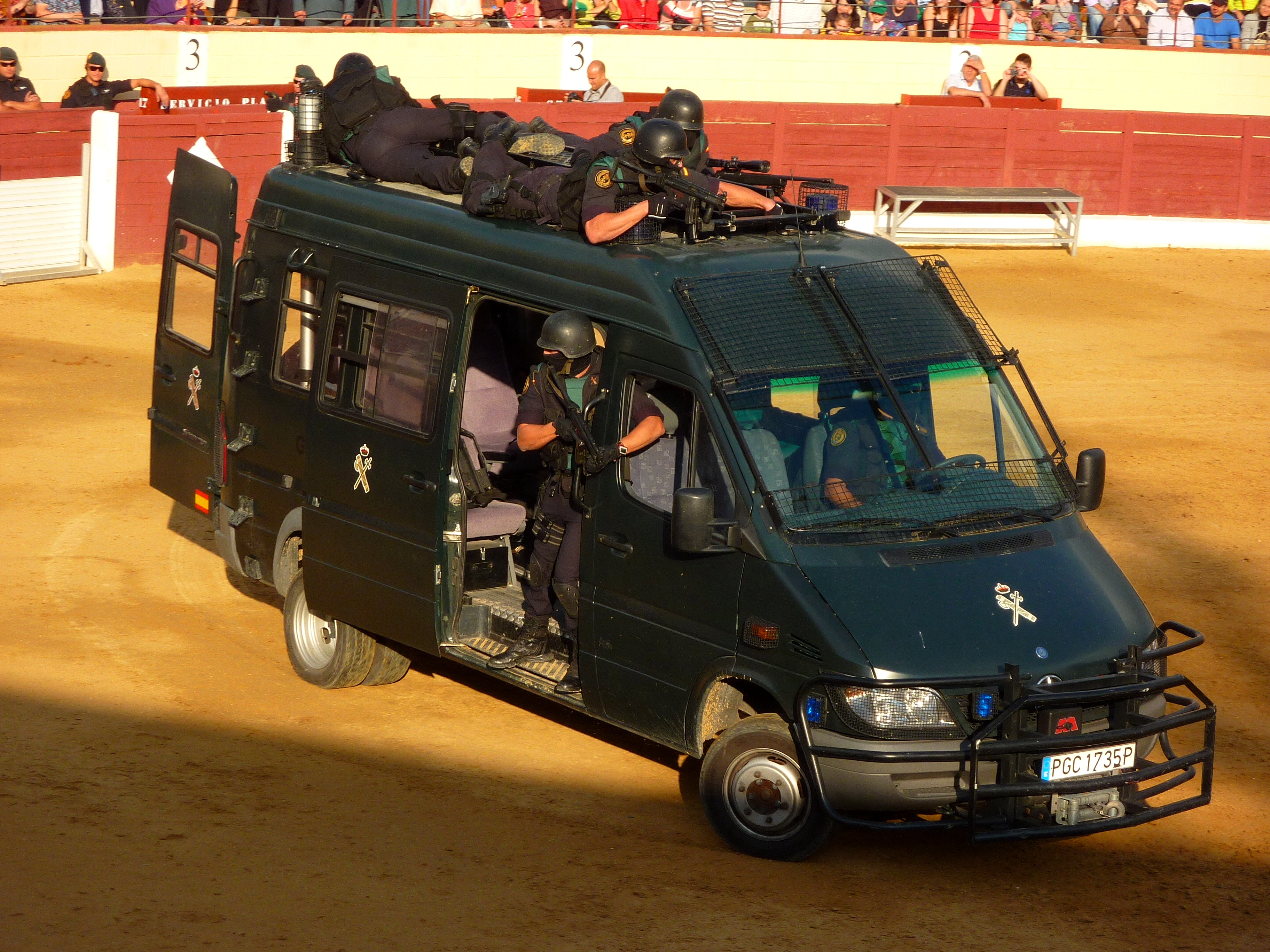 Mercedes-Benz Sprinter of the Reserve and Security Group of the Spanish Civil Guard.